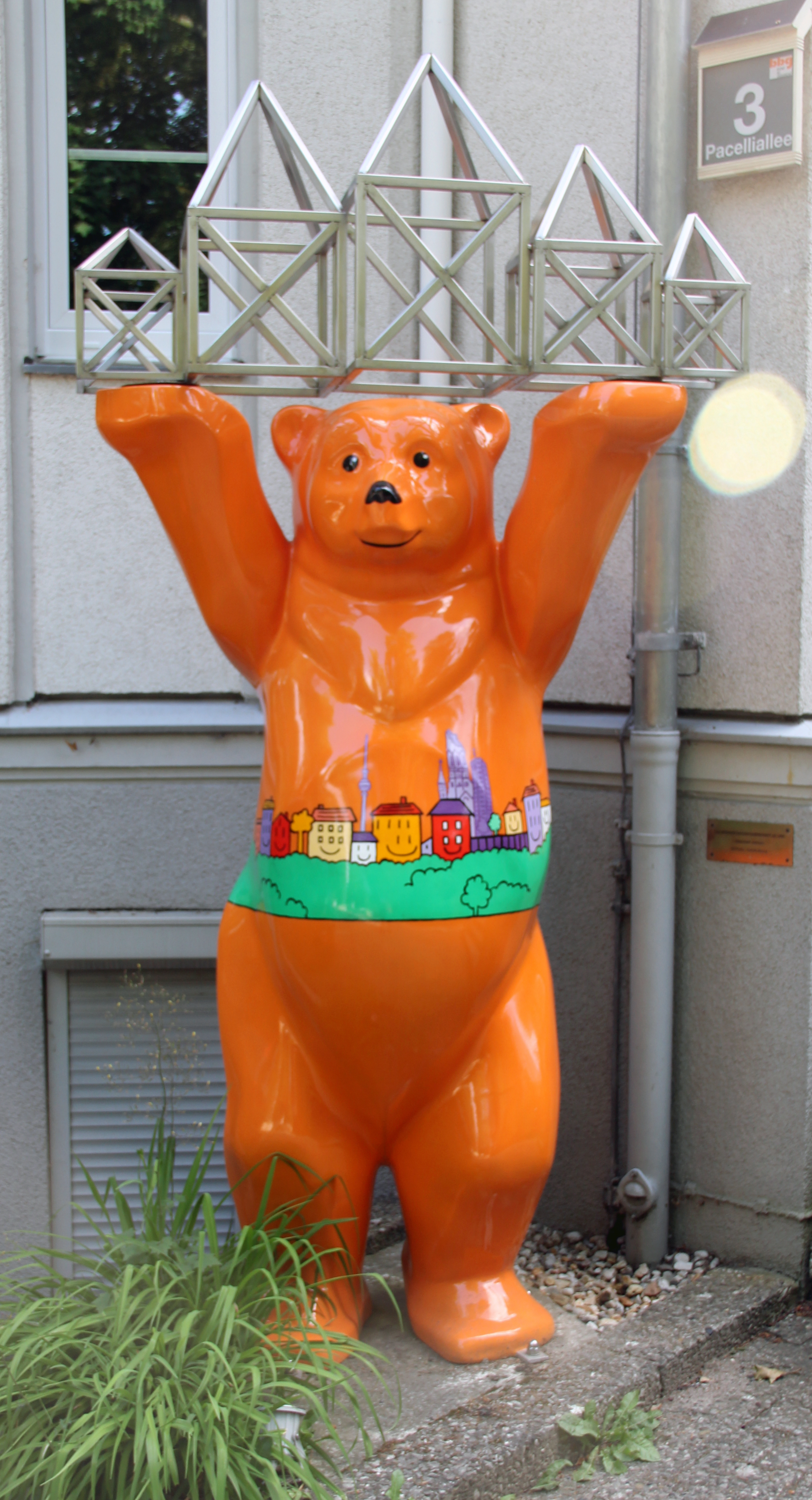 ""bärenstark wohnen", Pacelliallee 3, Berlin-Dahlem, Germany